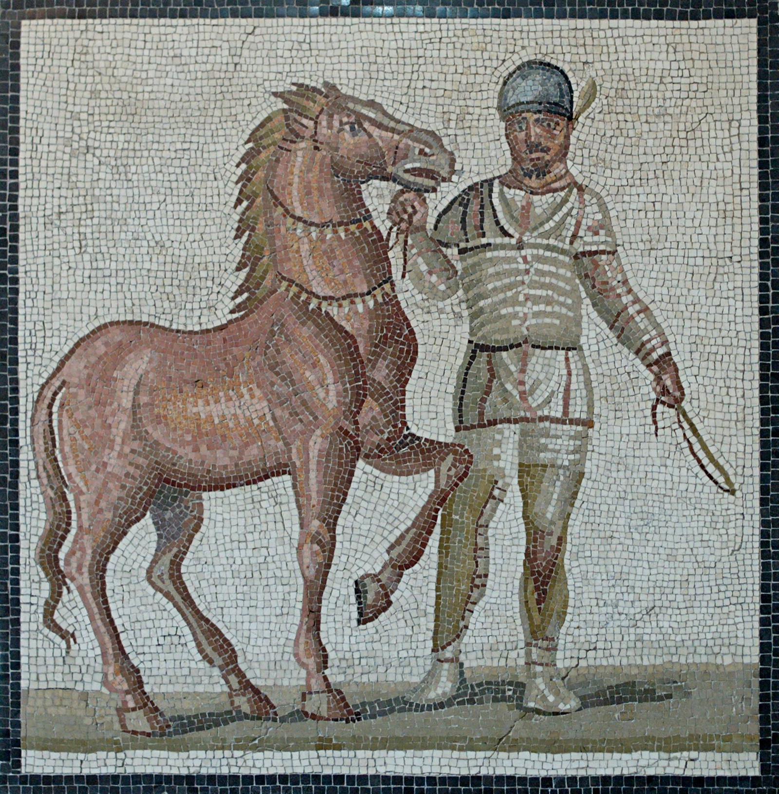 Pavement mosaic with a circus charioteer of the albata (white) faction. Roman artwork, first half of the 3rd century CE. From the Villa dei Severi at Baccano, 16 miles from the Via Appia.